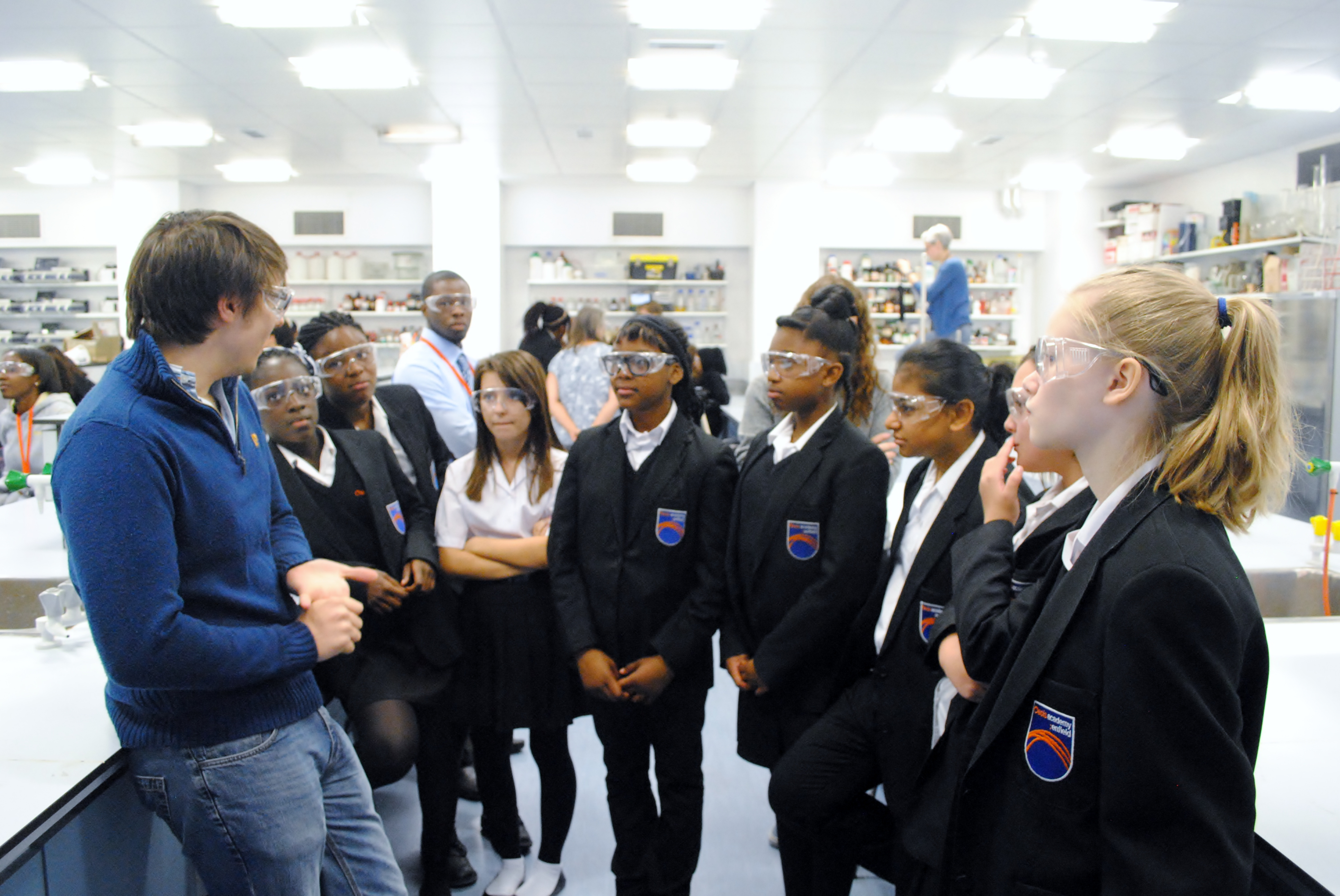 A chemistry open day outreach event at University College London.